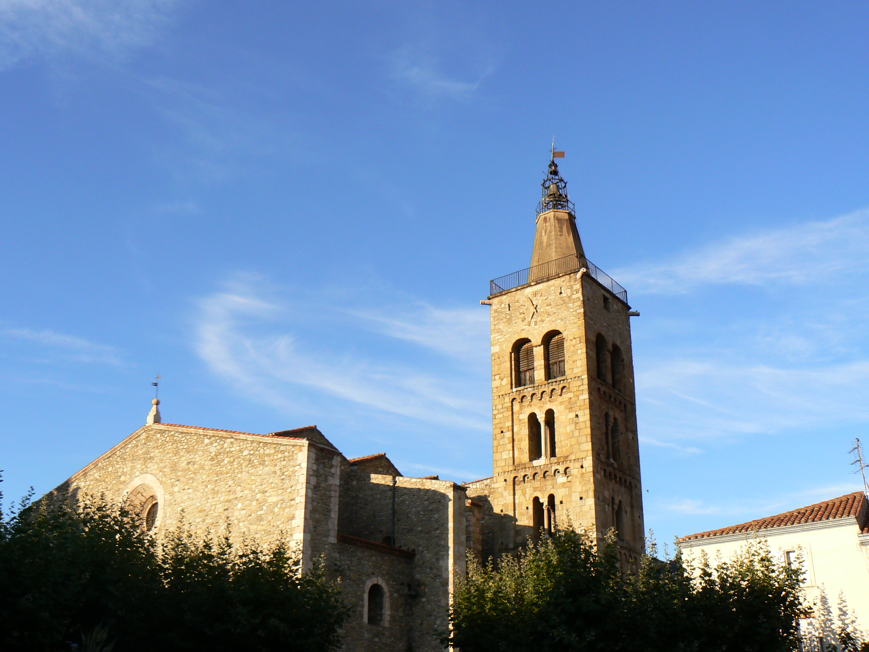 Prades (département of Pyrénées-Orientales, Languedoc-Roussillon région, France) : Saint-Peter church